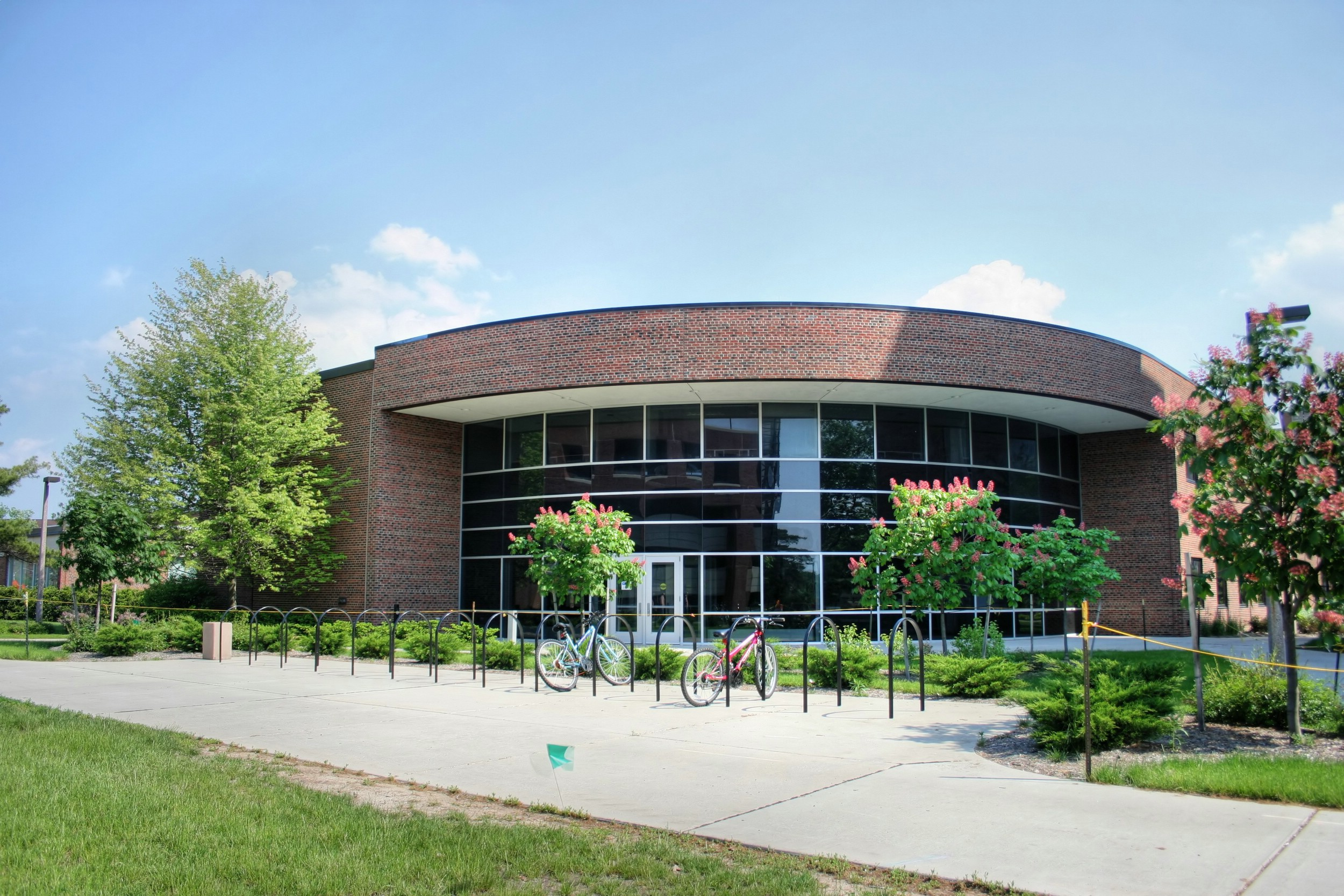 A photograph of the National Superconducting Cyclotron Lab located on the Michigan State University campus in East Lansing, Michigan. This photograph is one of a series taken for Wikipedia by the submitter on May 28th, 2006 between the hours of 3pm and 6pm.